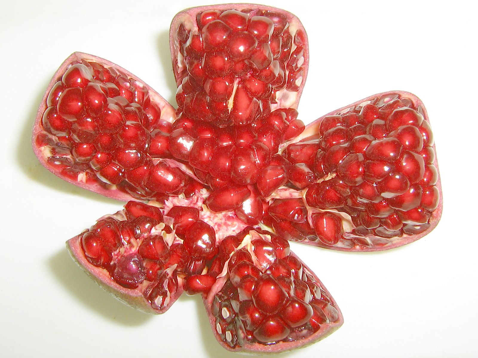 An opened up pomegranate.